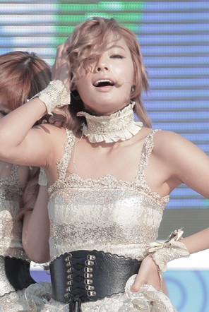 Di of Rania at the Multicultural Festival, Gyeonggi-do, September 2011